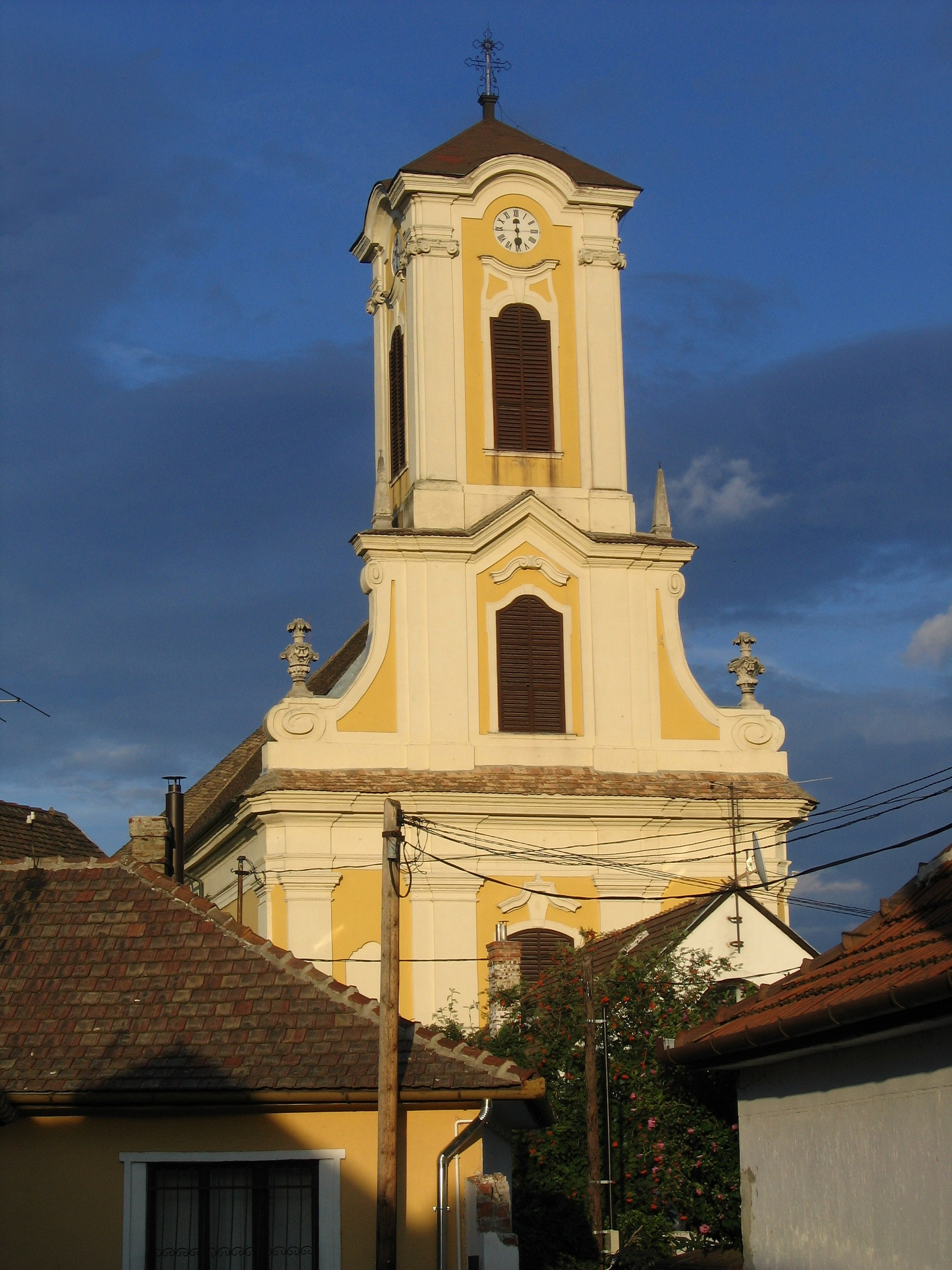 Szentendre, Hungary, Peter-Paul roman catholic church